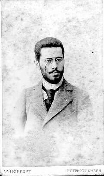 Dr. Selig Suskin, Agronomist, settlement developer and Zionist leader.